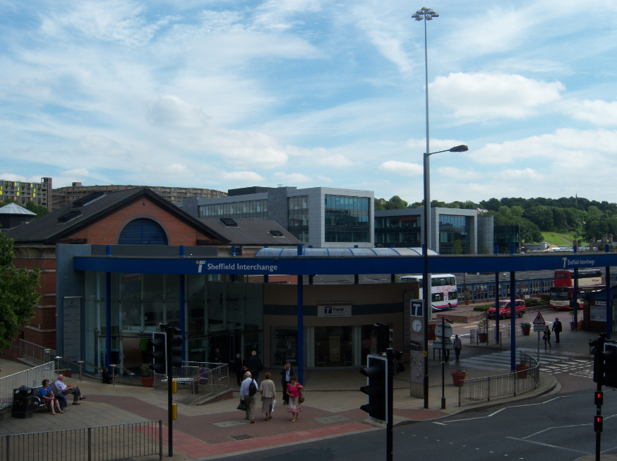 Sheffield Interchange. This facility serves as the hub for bus and coach operations in the city of Sheffield, England.